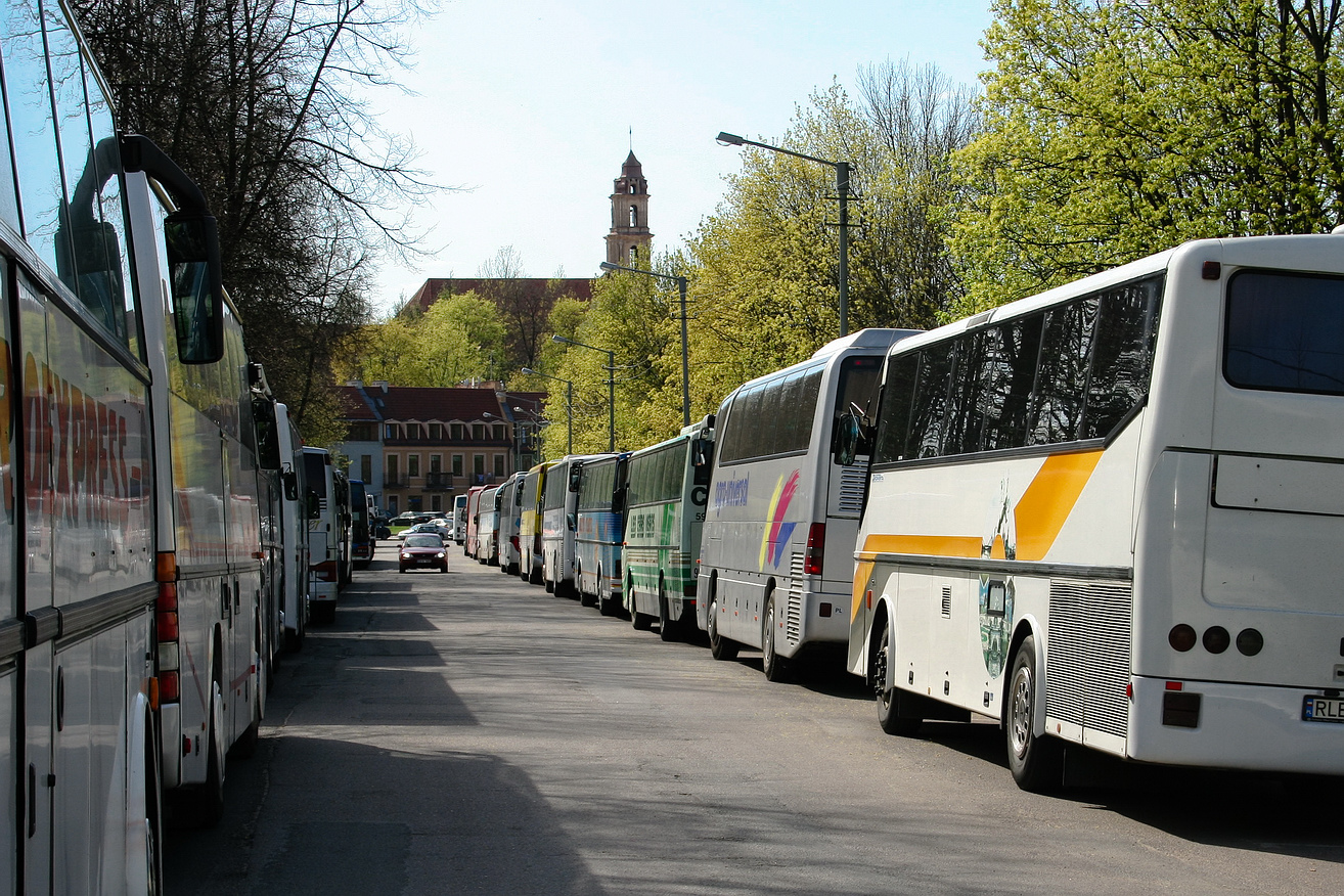 Polish tourist buses in Vilnius, Lithuania.